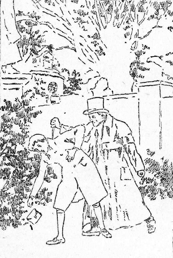 Assassination of Kaspar Hauser